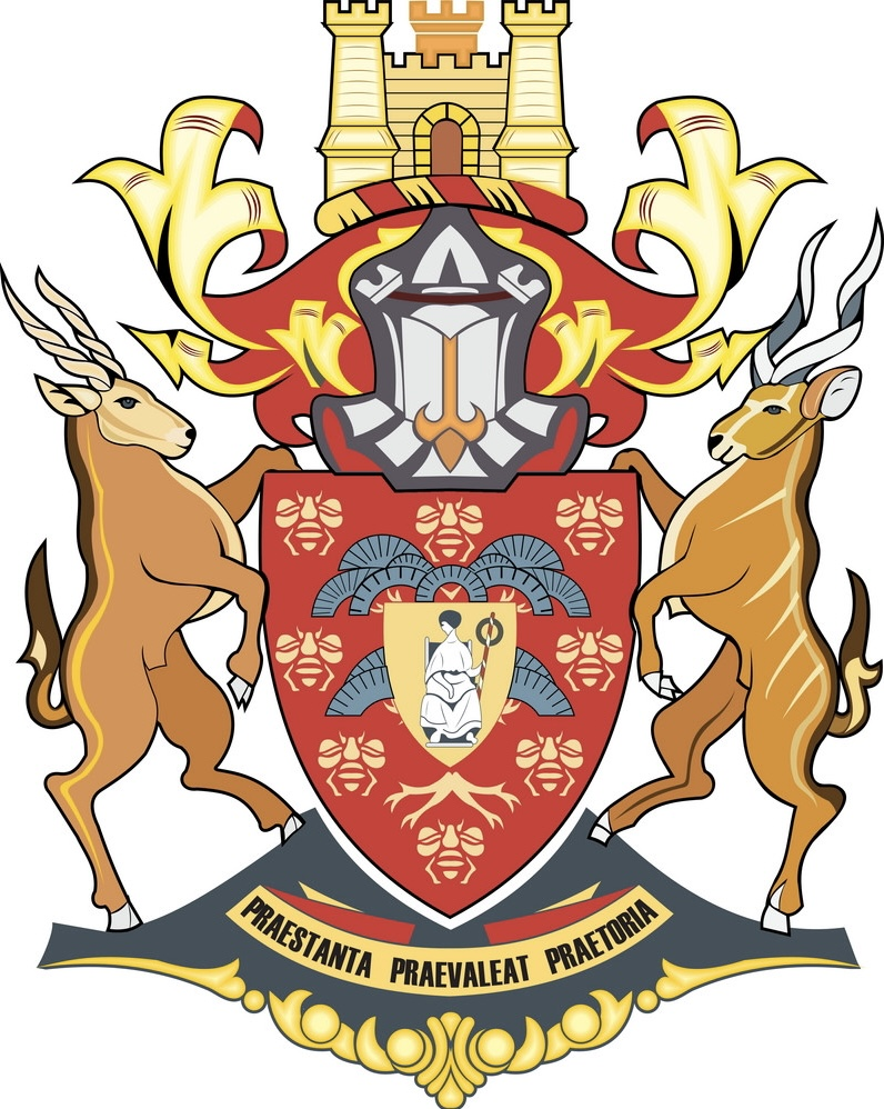 Coat of arms of Pretoria